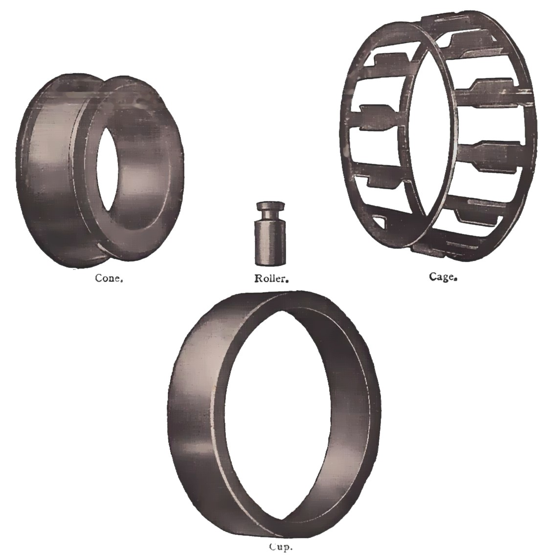 Timken roller bearing Note the early use of grooved rollers, for location Scans from 'The Book of the Motor Car', Rankin Kennedy C.E., 1912 See other images from this source in Scans from 'The Book of the Motor Car'